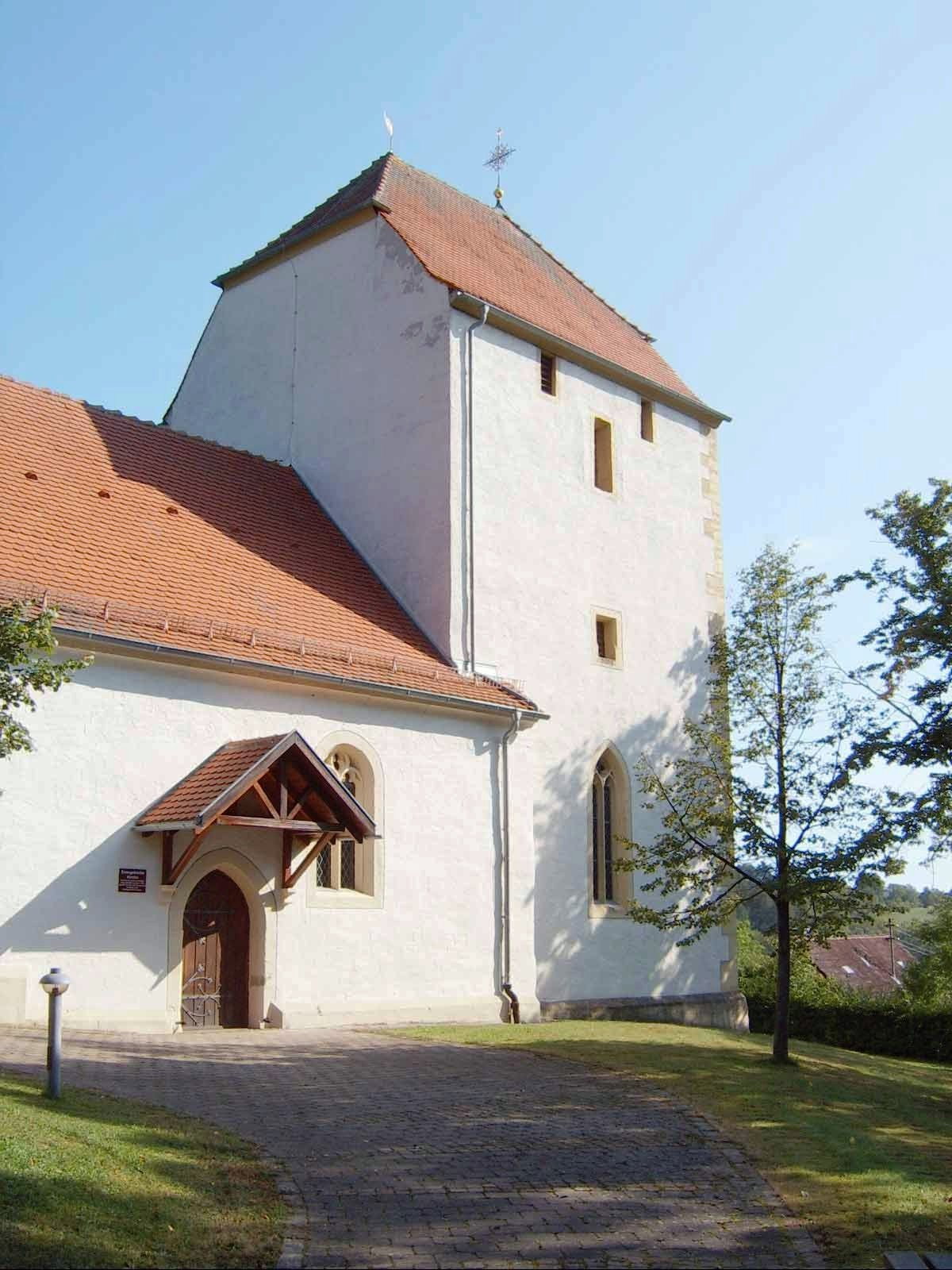 Angeltürn (Church-Castle); District of Main-Tauber; Federal State of Baden-Württemberg; Germany Build in the 14th century; later changes; of special interest: massive church-tower with loopholes (chorus in the basement)